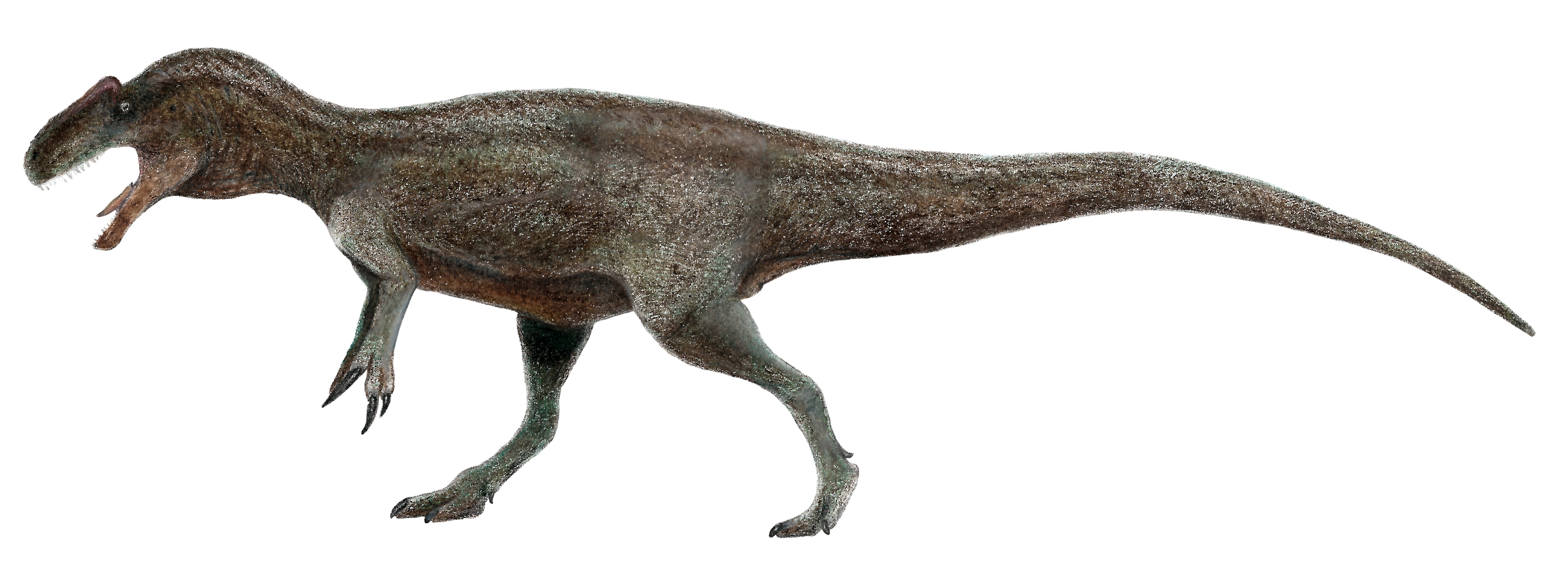 Allosaurus Recreation altered to make it Epanterias, but can be used as both